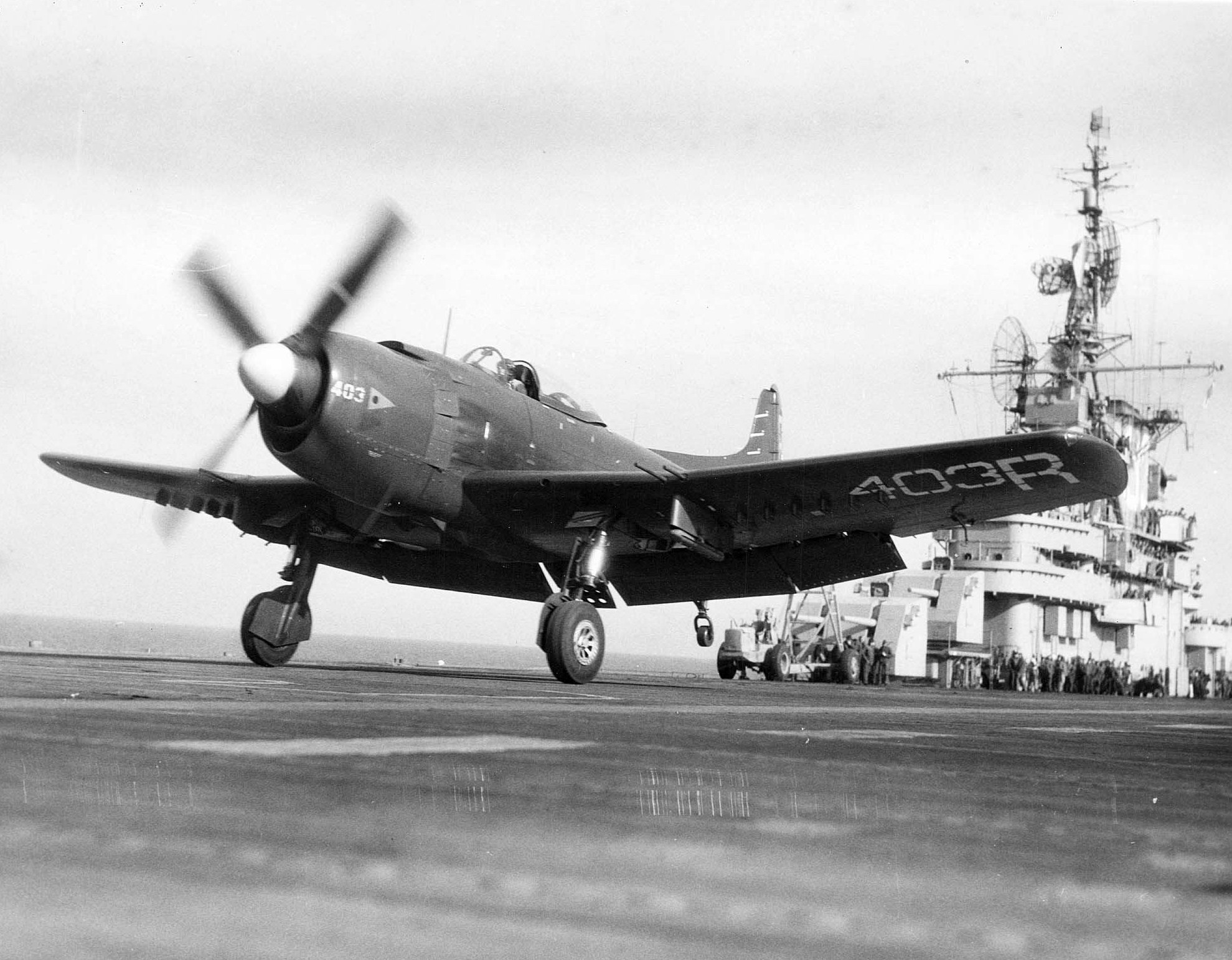 A Martin AM-1 Mauler of attack squadron VA-174 taking off from the aircraft carrier USS Kearsarge (CV-33) during carrier qualifications in 1949. The tests took place in the Atlantic Ocean off Naval Air Station Quonset Point, Rhode Island (USA).